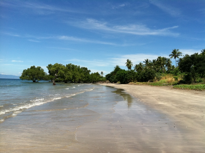 Beach on Atauro